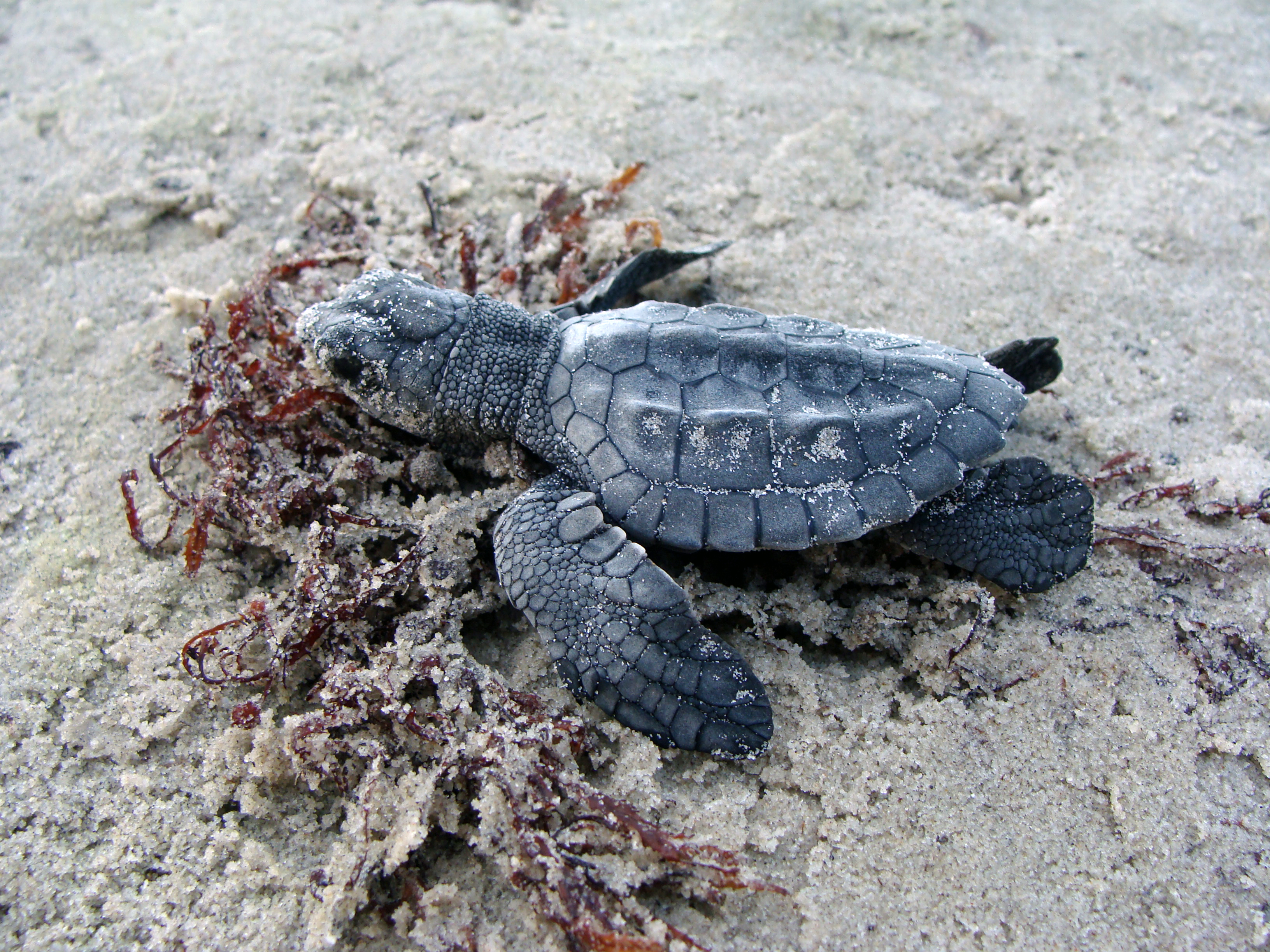 Kemp's Ridley sea turtle hatchling release, South Padre, Gulf of Mexico.